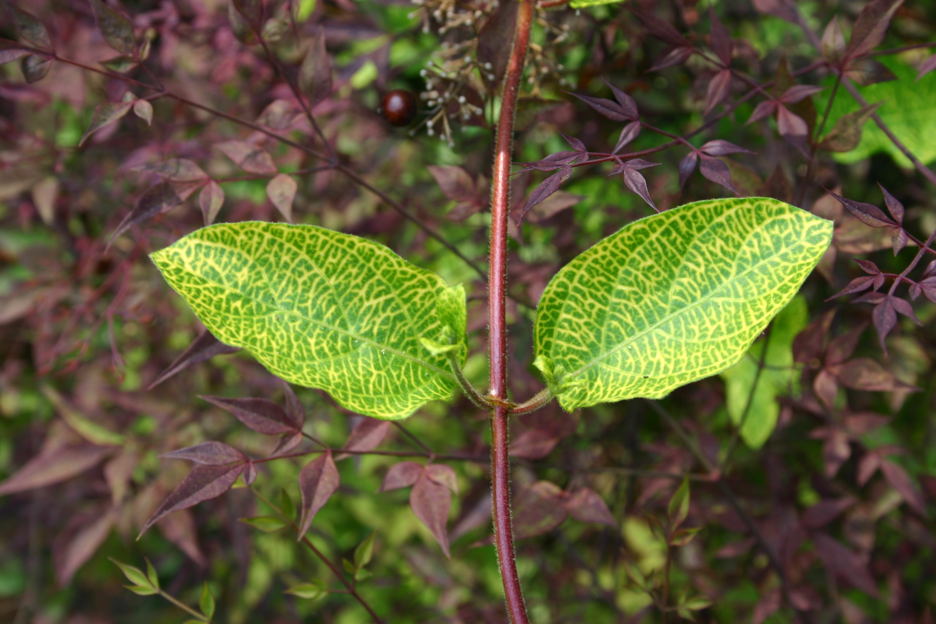 Leaves of a variegated cultivar of Lonicera japonica